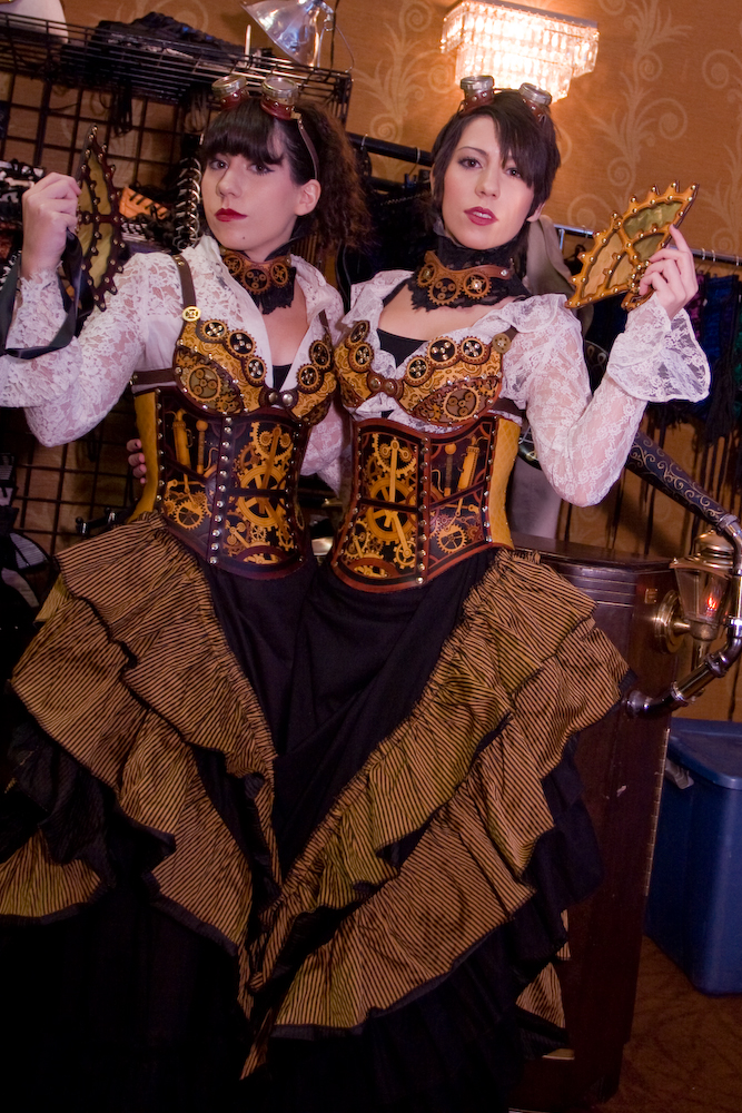 Leather Clockwork corset twin ladies at Steampunk Worlds Fair. at the Steampunk Worlds Fair